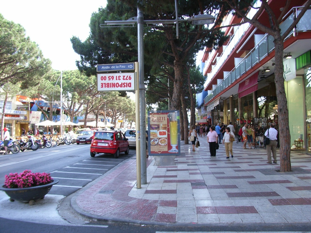 Shopping street, with shops such as Corte Ingles, Ivan, Mar Franc, Massimo Dutti, Mango, Tous, Desigual and many more.